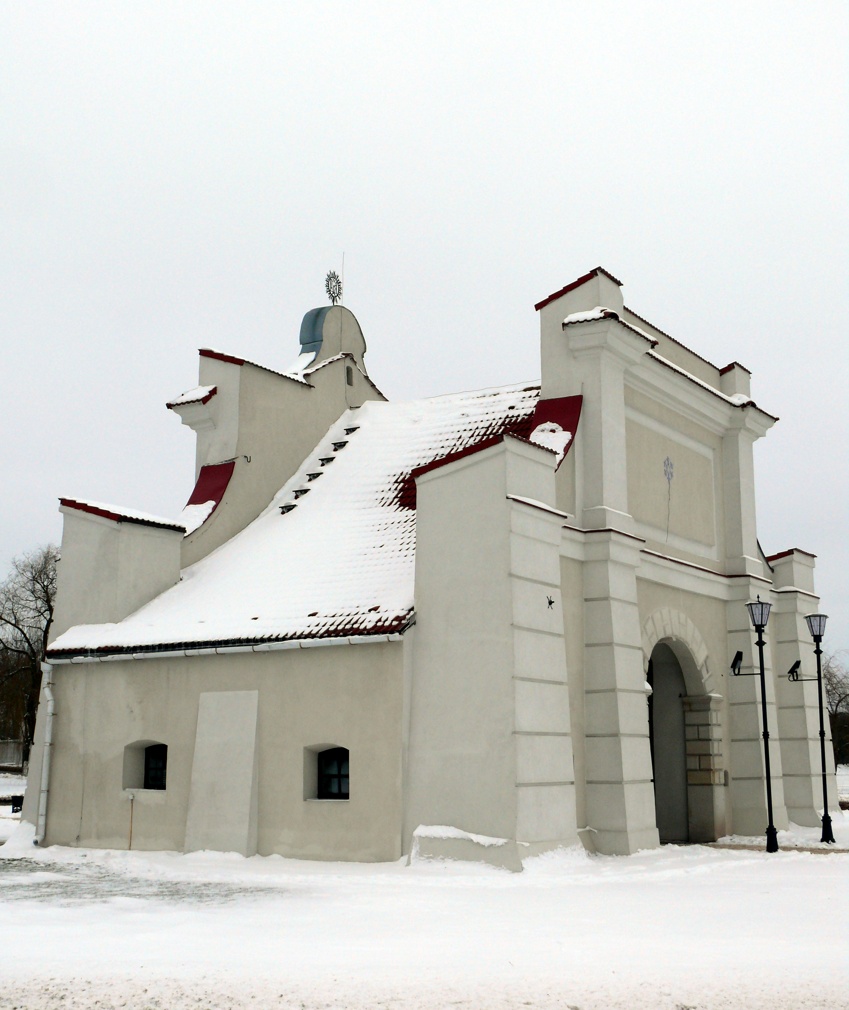 Slucka Brama (City Gate) in Nyasvizh, Belarus